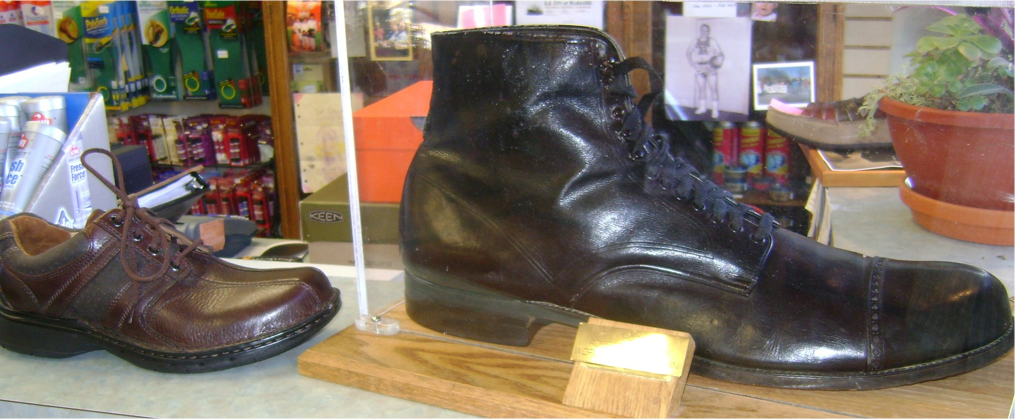 Robert Wadlow shoe (size 25) compared to normal size 12.